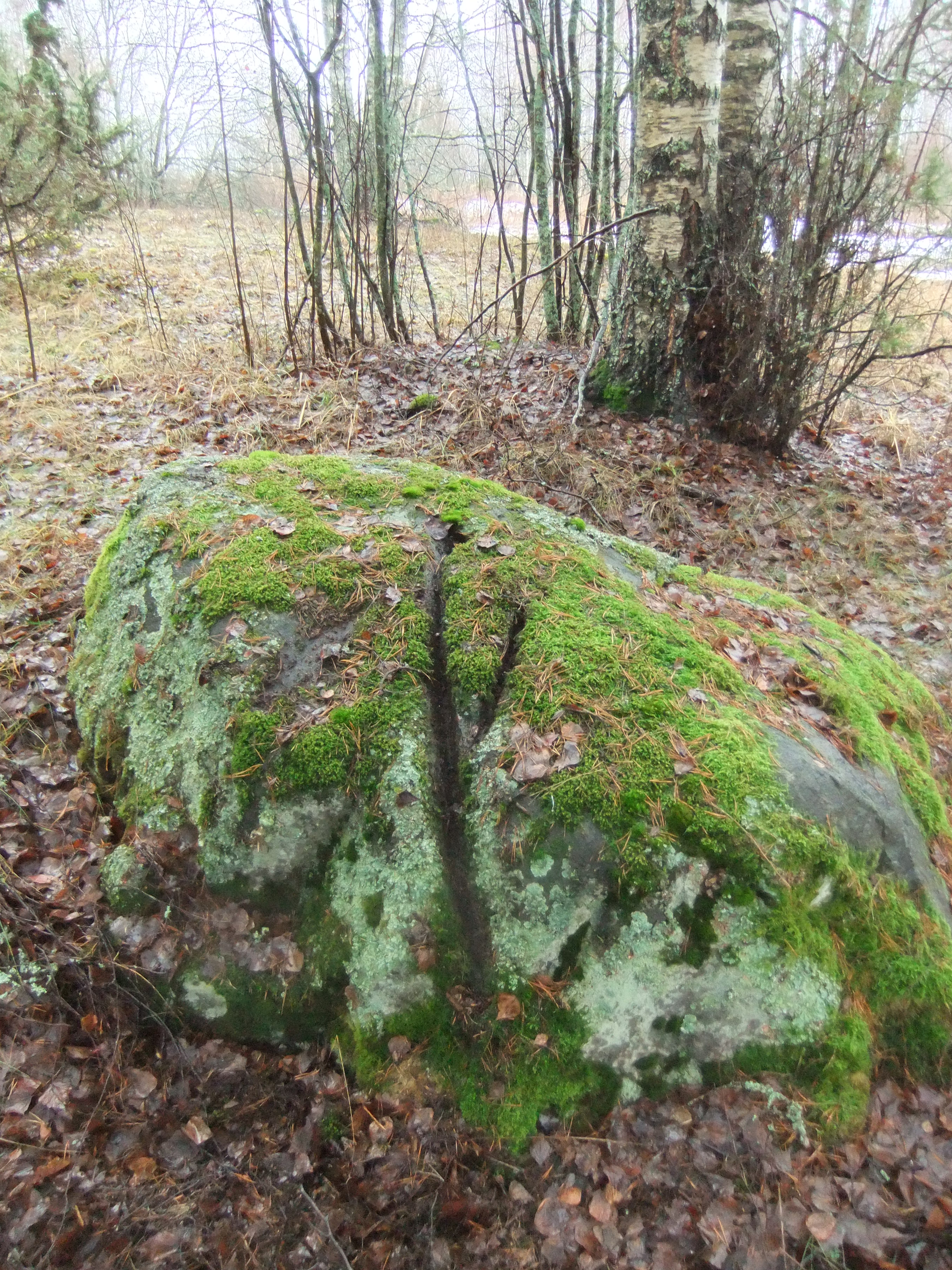 The Tyrväntö Ristiinanhovi Groove Stone in Tyrväntö, Hattula, Finland. An Iron Age heritage site.